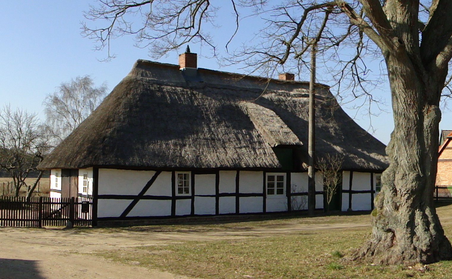 Timber framed house with thatched roof in Dobbin, district Ludwigslust-Parchim, Mecklenburg-Vorpommern, Germany